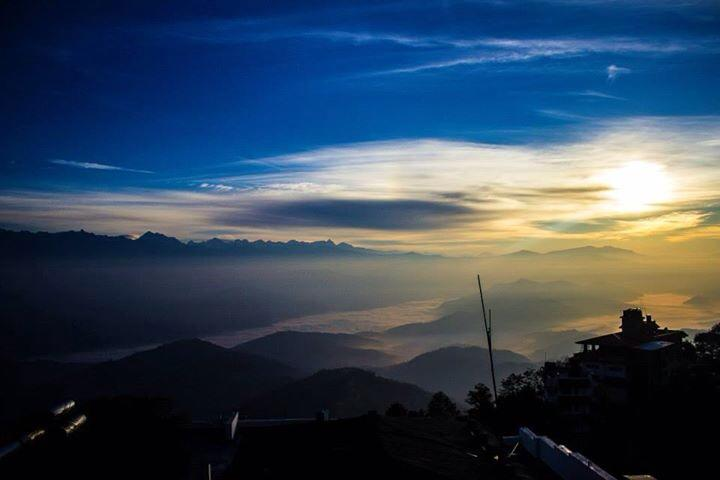 The beautiful sunrise view from the top of Nagarkot